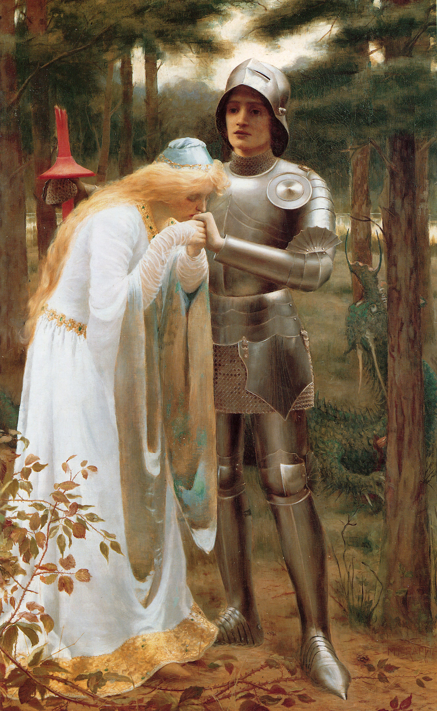 "Princess Britomart, disguised as a knight, fulfilling a vow to her absent lover, rescues the Lady Amoret from durance vile by slaying the monster Busyran." - Spenser's "Faerie Queene," Book IV. Canto I."